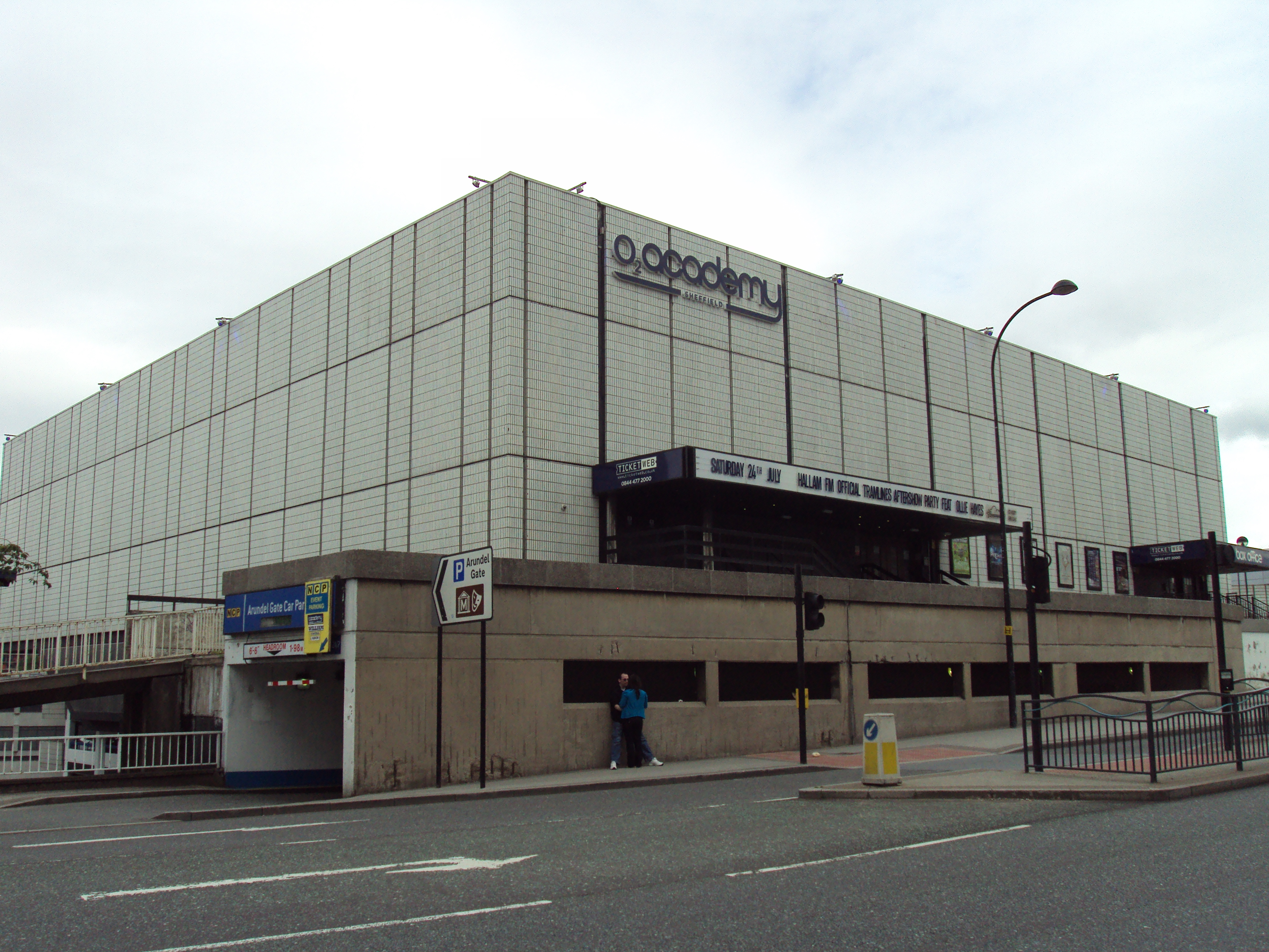 O2 academy, Arundel Gate, Sheffield, England.